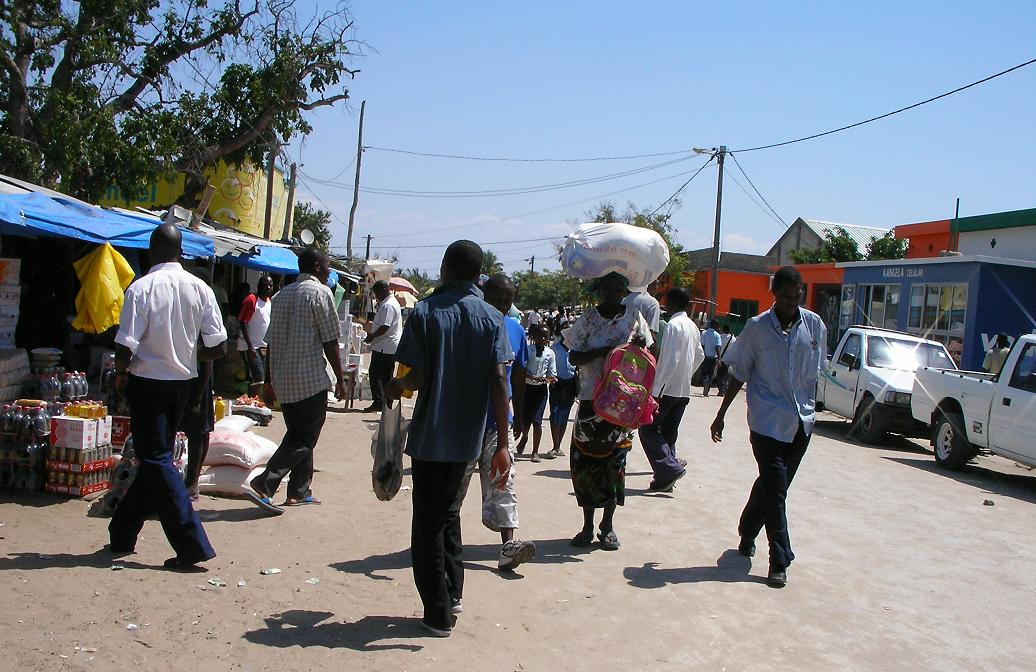 Near the market, central Vilankulo, Mozambique at 12:18 PM local time. Camera is pointing west.